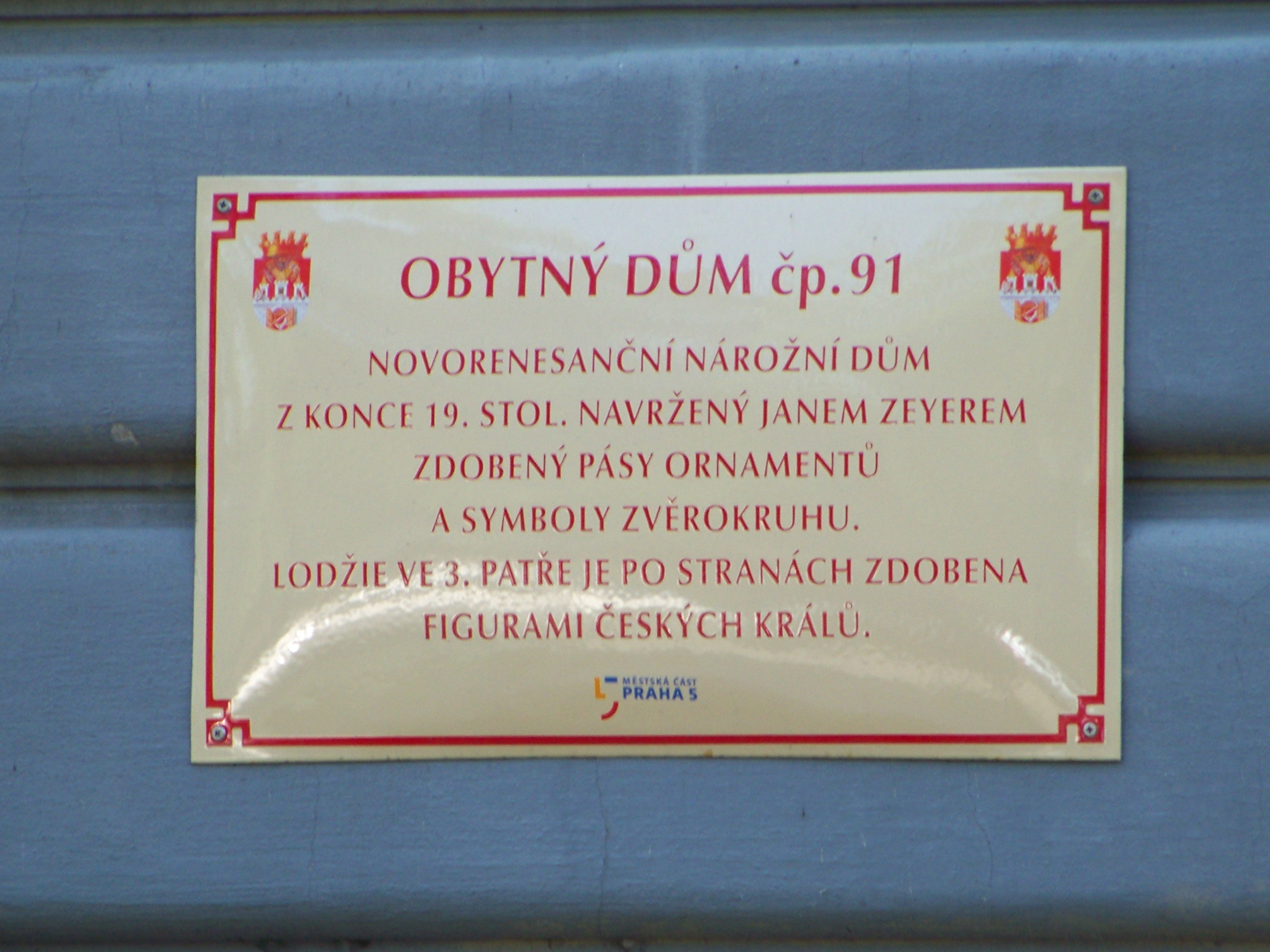 Prague-Smíchov, the Czech Republic. Janáčkovo nábřeží, house No. 91/35, an information sign.